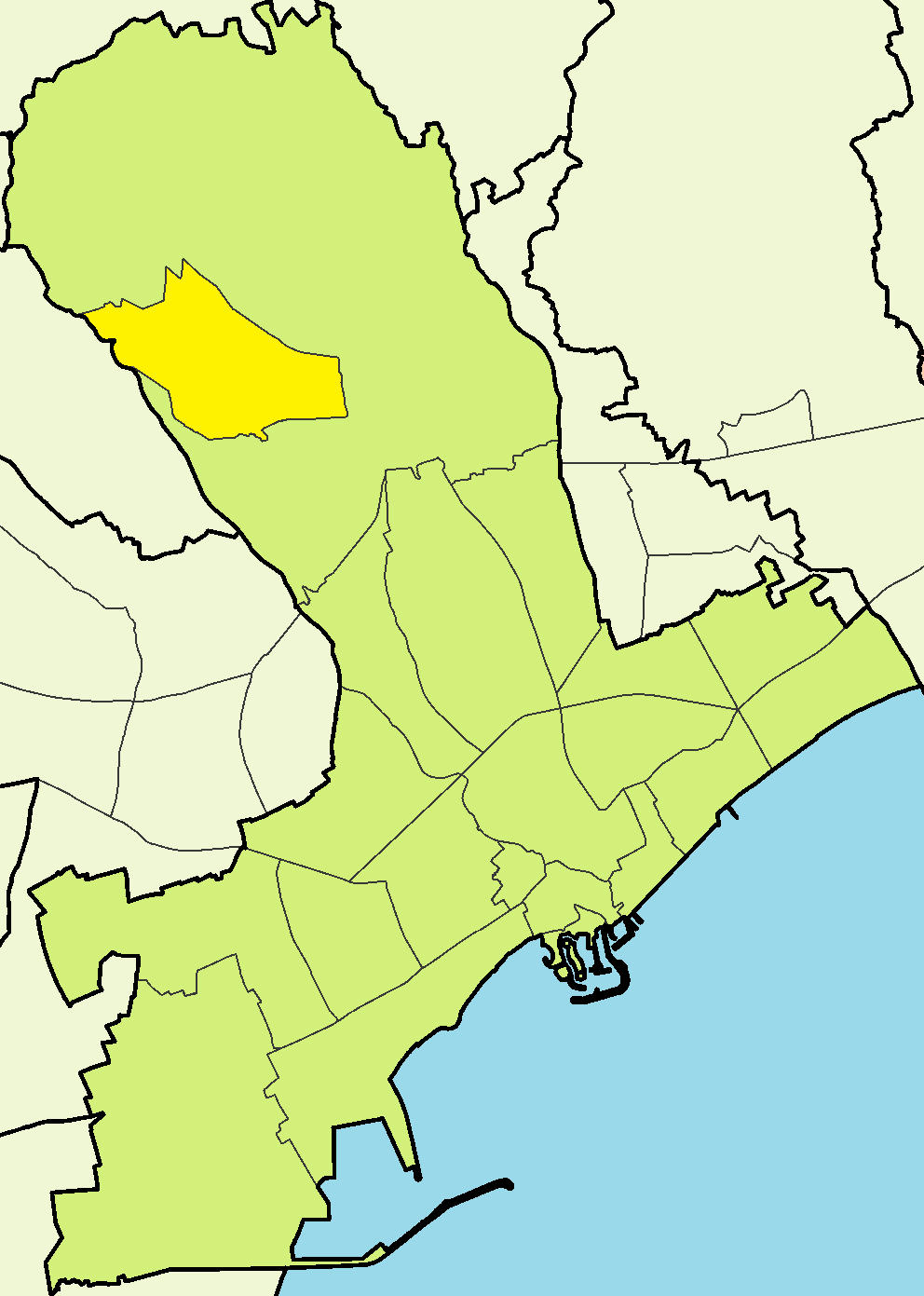 Panagia Evangelistria in Limassol Municipality